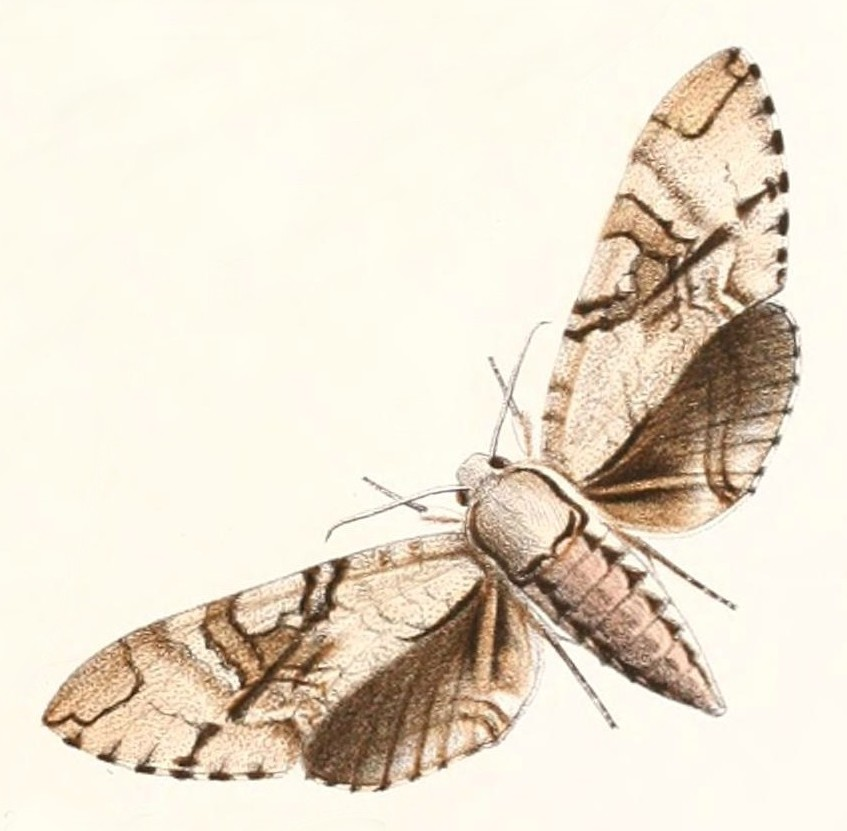 « Macrosila rotundata » = Manduca jasminearum